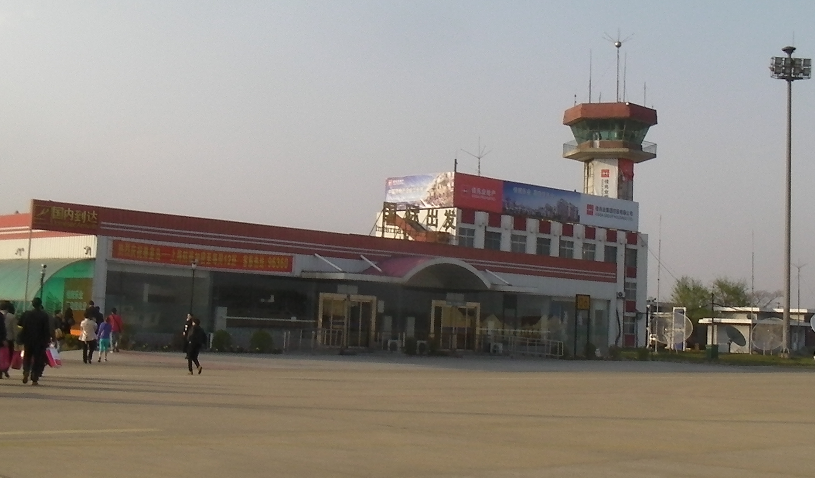 Qinhuangdao Shanhaiguan airport (IATA: SHP) arrival terminal as seen from the tarmac at a quarter after 5 PM local time